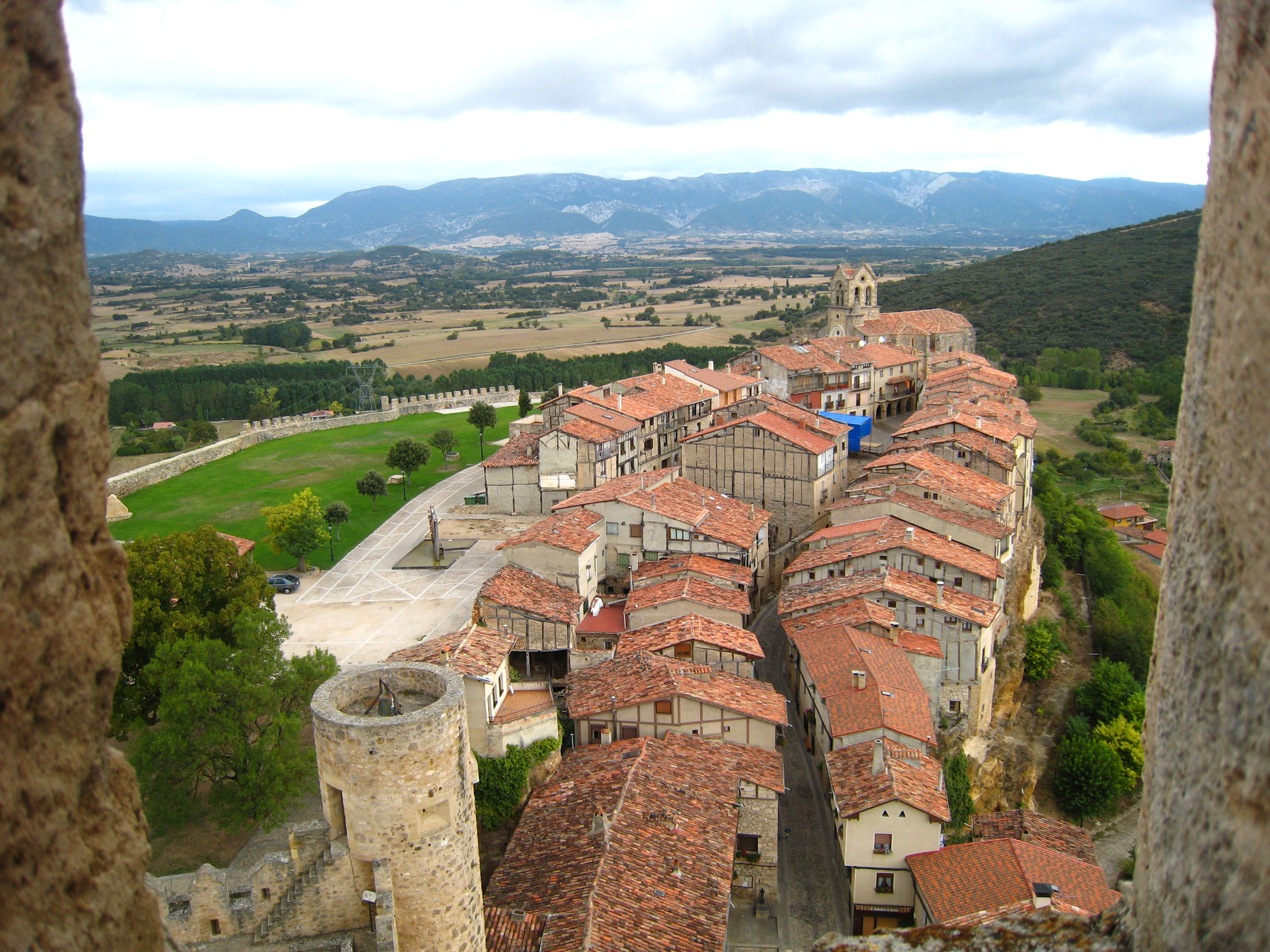 View of Frías, Burgos (Spain) as seen from the castle.